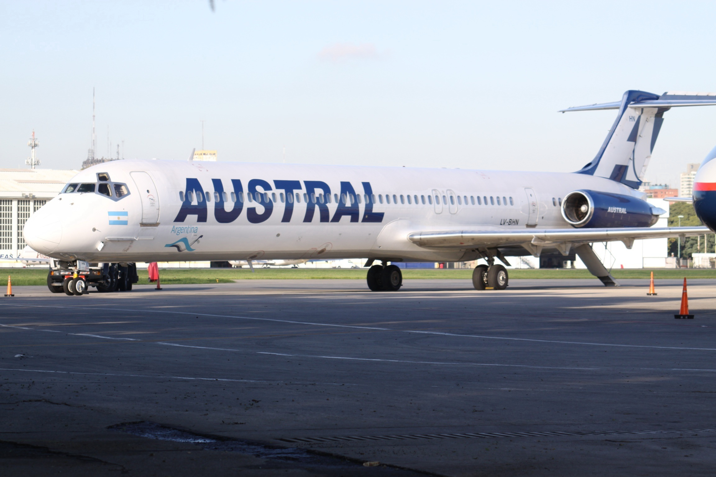 At Buenos Aires Aeroparque